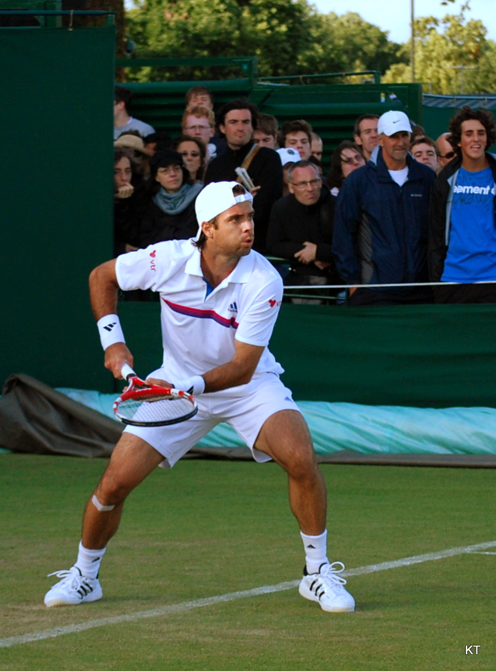 Fernando Gonzalez during his first round match with Alexandr Dolgopolov. Gonzalez won 6-3, 6-7, 7-6, 6-4. Day 2 of Wimbledon 2011.